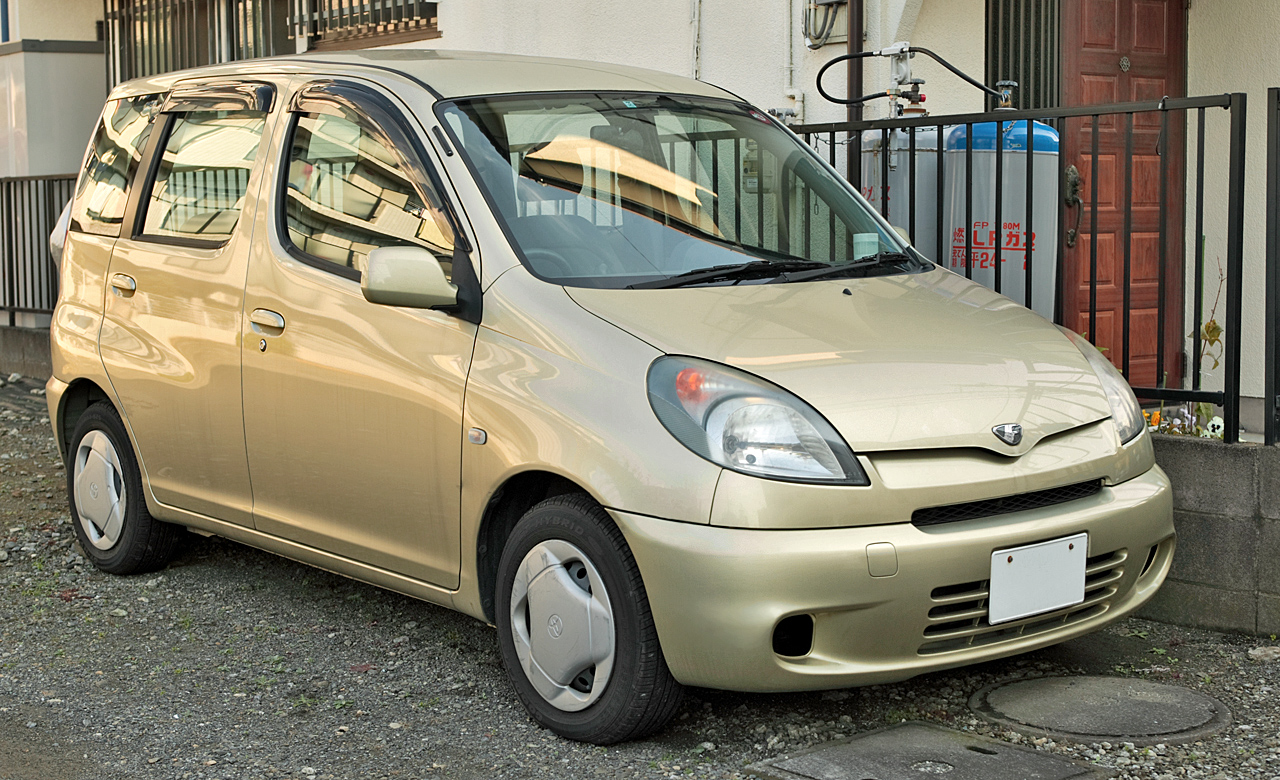 Toyota Fun Cargo